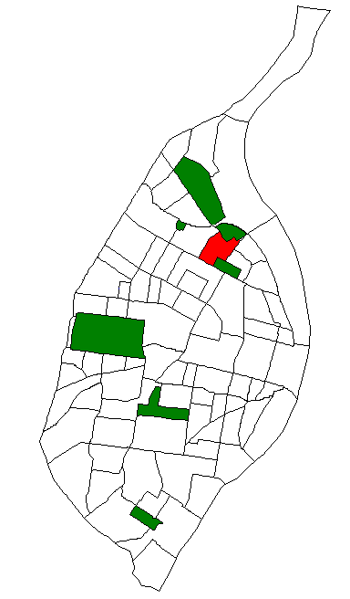 Map of St. Louis Neighborhood #68 (O'Fallon)